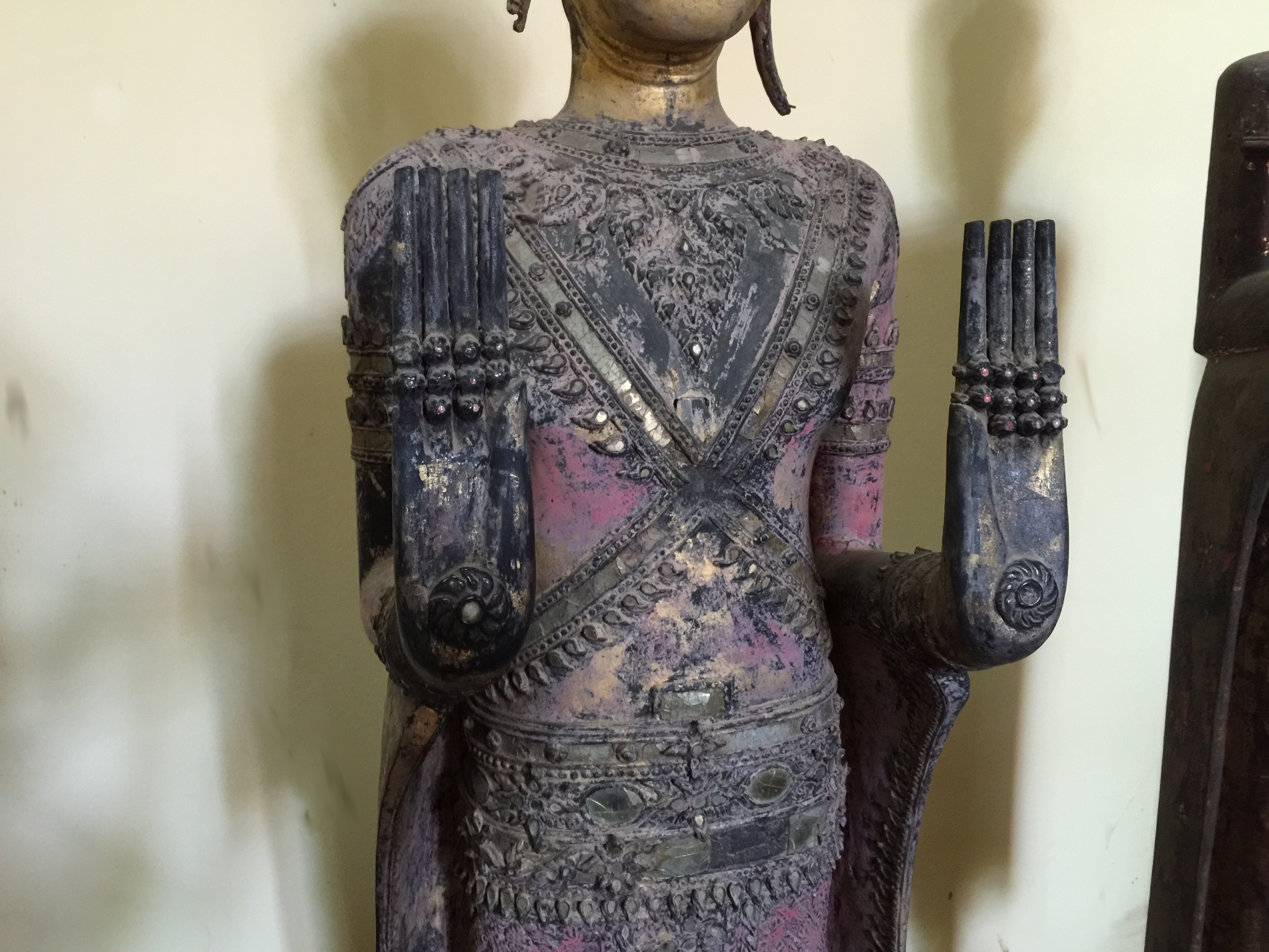 Buddha statue with Abhaya Mudra in the Cambodian National Museum